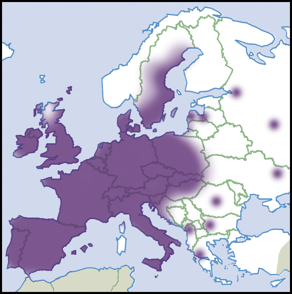 Oxychilus draparnaudi (Beck, 1837). Distribution in Europe, scientific state of knowledge of 2012. Source description in English. Light colour indicated rare occurrences or regions where the species could eventually be expected to occur. Dark colour indicated relatively reliable occurrences, as well as regions where the species was expected to occur, and where the species was not known to be extremely rare. Dark colour indications were not necessarily based on published records. Species summary in AnimalBase